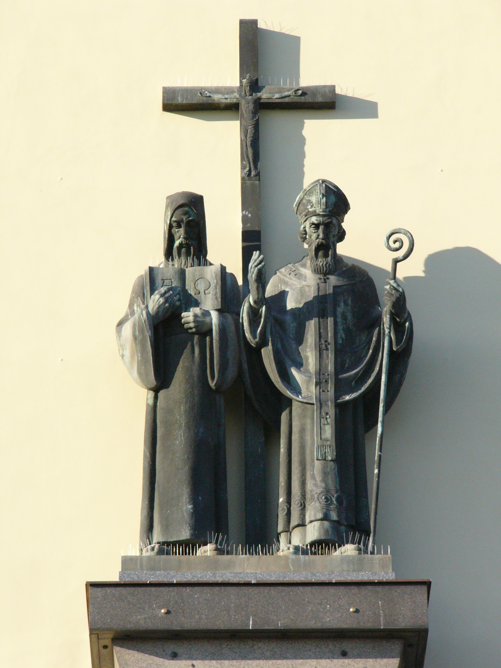 Statues of Saints Cyril and Methodius by Julius Pelikán on the church of Saints Cyril and Methodius in Olomouc (Czech Republic)..